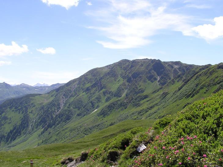 The north face of the Steinbergstein in the Kitzbühler Alps, Austria.